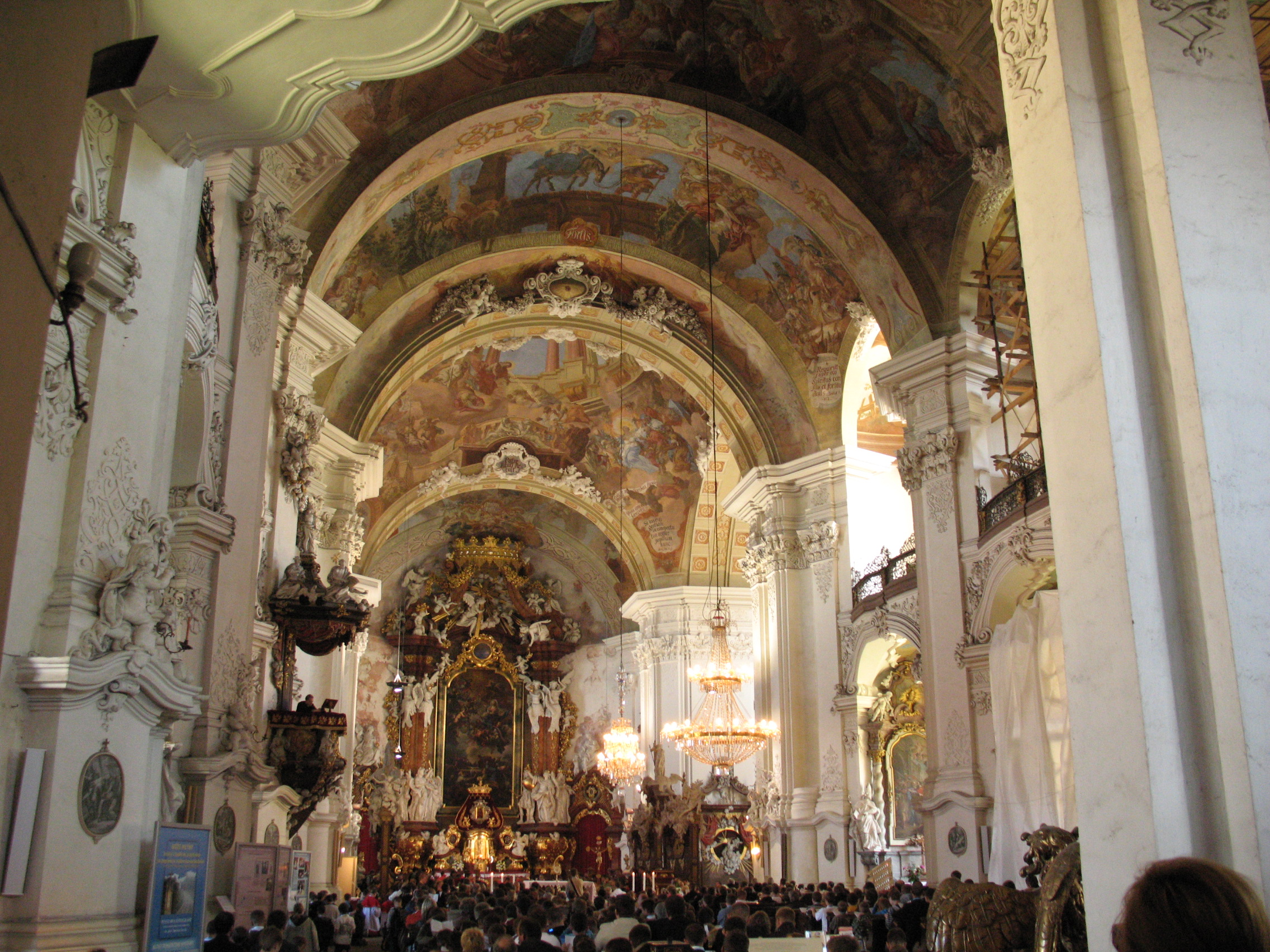 Krzeszów Abbey, Church of the Graceful BVM, Interior, Lower Silesia, Poland